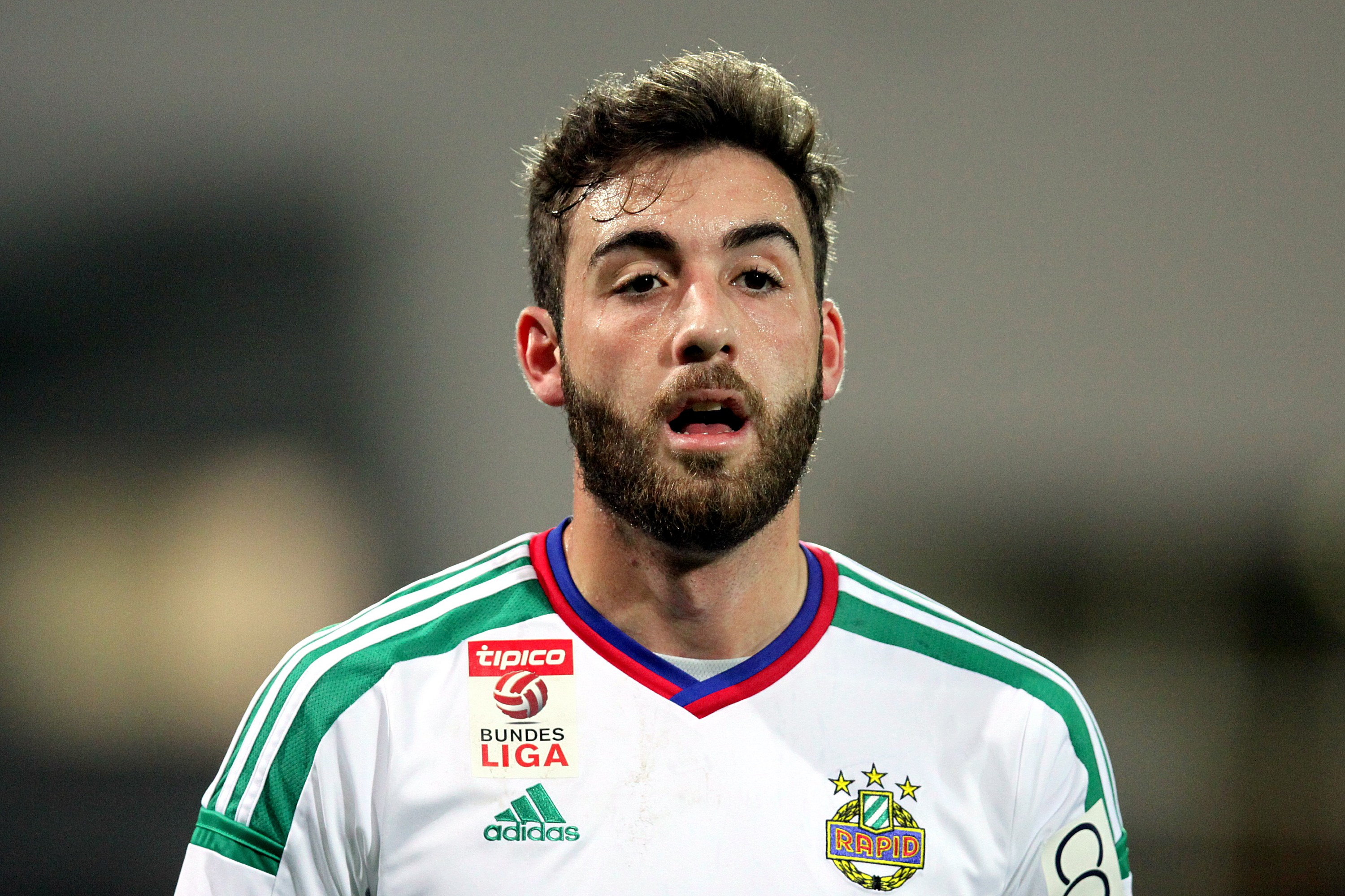 Match of the Austrian Football Bundesliga – FC Admira Wacker Mödling (red shirts) vs. SK Rapid Wien (white shirts) 2-1 (0-1) on 2015-12-02 in Bundesstadion Sudstadt – The photo shows Thanos Petsos.